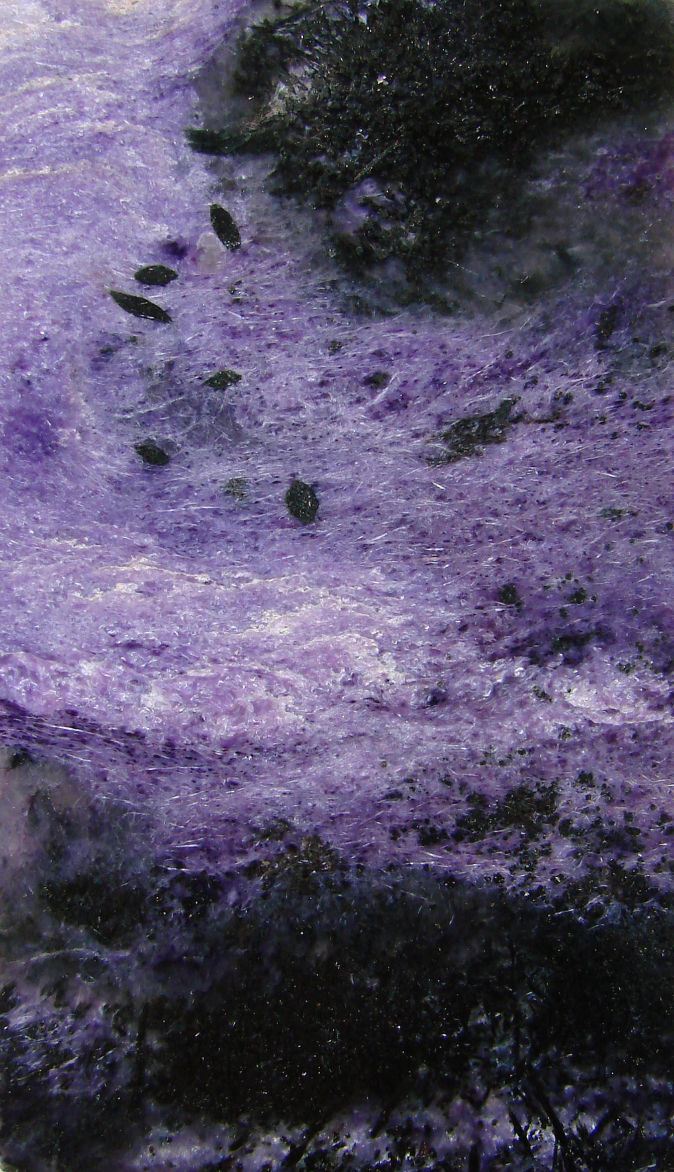 Polished slice of charoite, real height 8,5 cm.